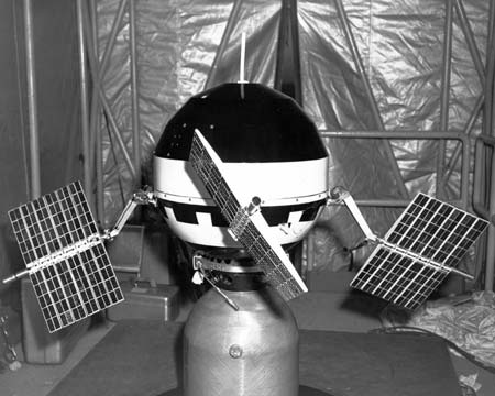 Pioneer V Thor Able Launch and Payload